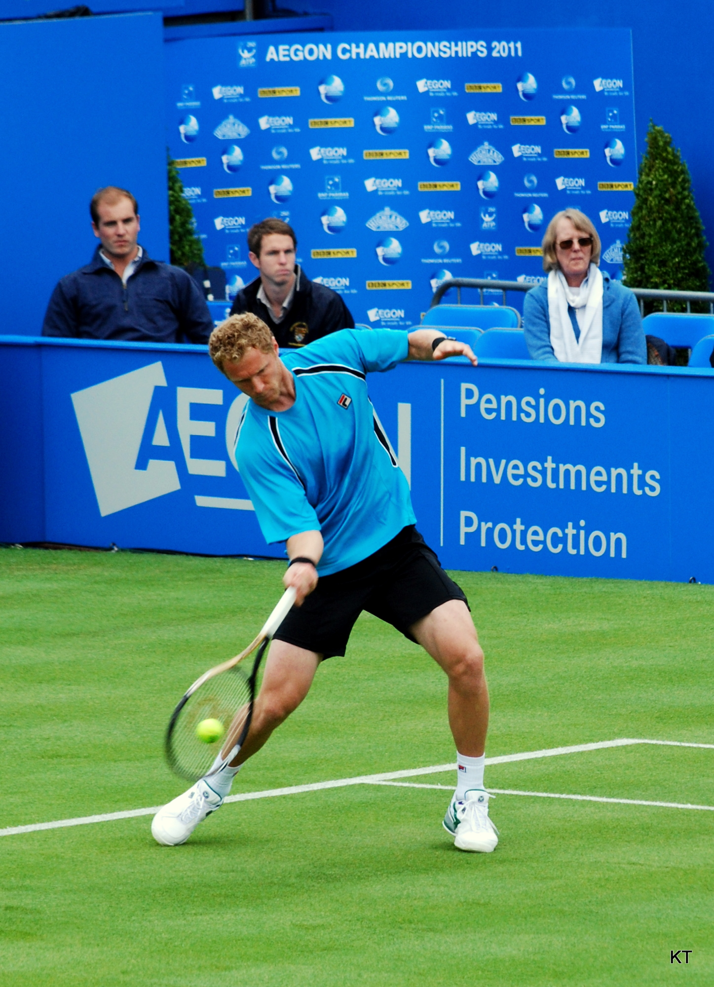 Dmitry Tursunov during his 1st round match with Feliciano Lopez. Lopez won 7-6, 6-3. Day 1 of the Aegon Championships, Queen's Club 2011.